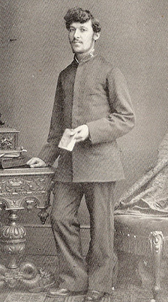 From a photograph taken in c. 1880